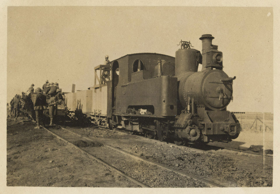 British troops boarding a train on the desert railway, Libya, 1916